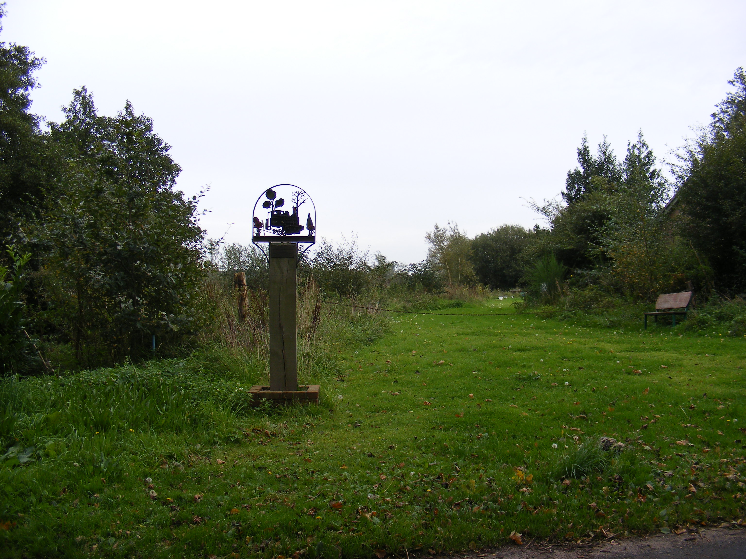 Site of Wenhaston Railway Site of the old Wenhaston railway station. The station was situated on the old Southwold to Halesworth line that was closed in 1929